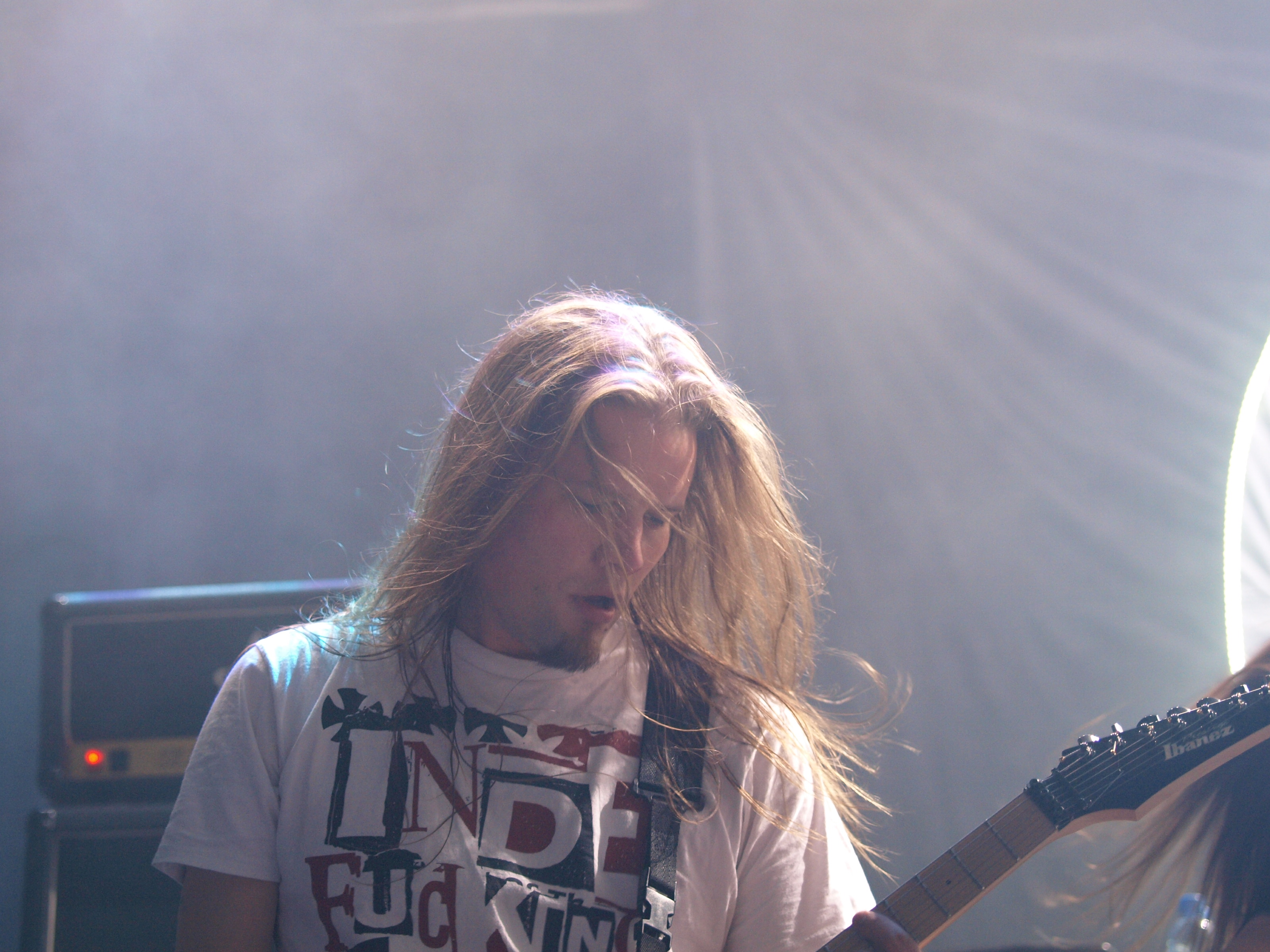 Amoral live at Finnish Metal Expo 2012 in Helsinki